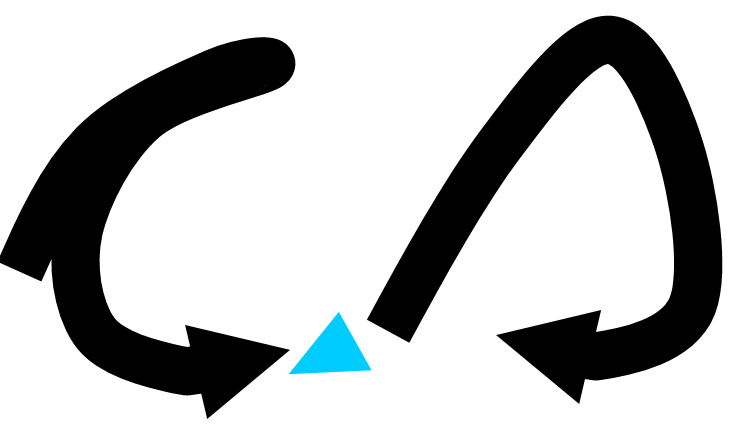 Interrupts of movement between characters